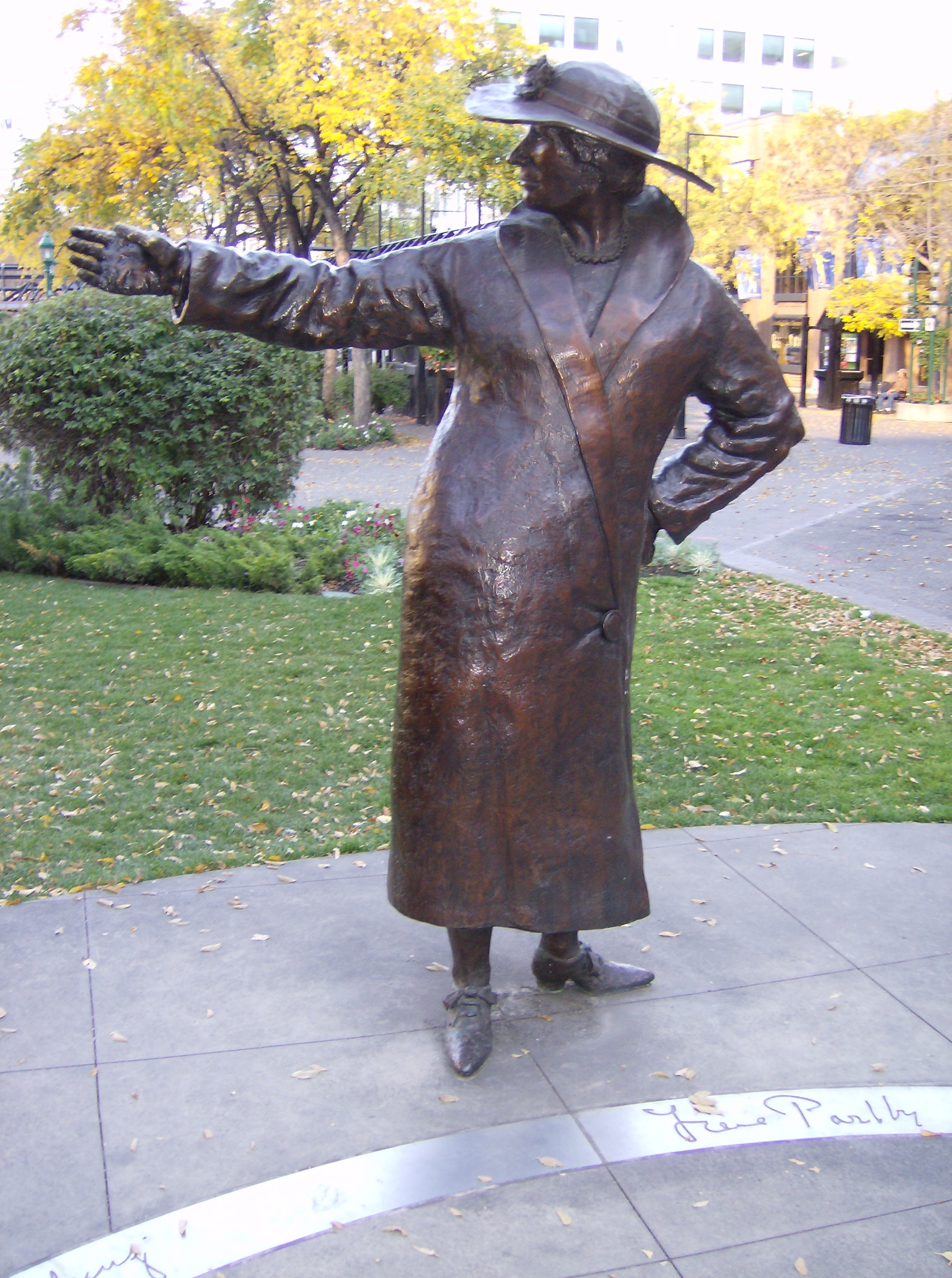 This is a statue of Irene Parlby, which is part of a monument to the Famous Five (aka The Valiant Five). This picture was taken in Calgary. An identical momument is in Ottawa.